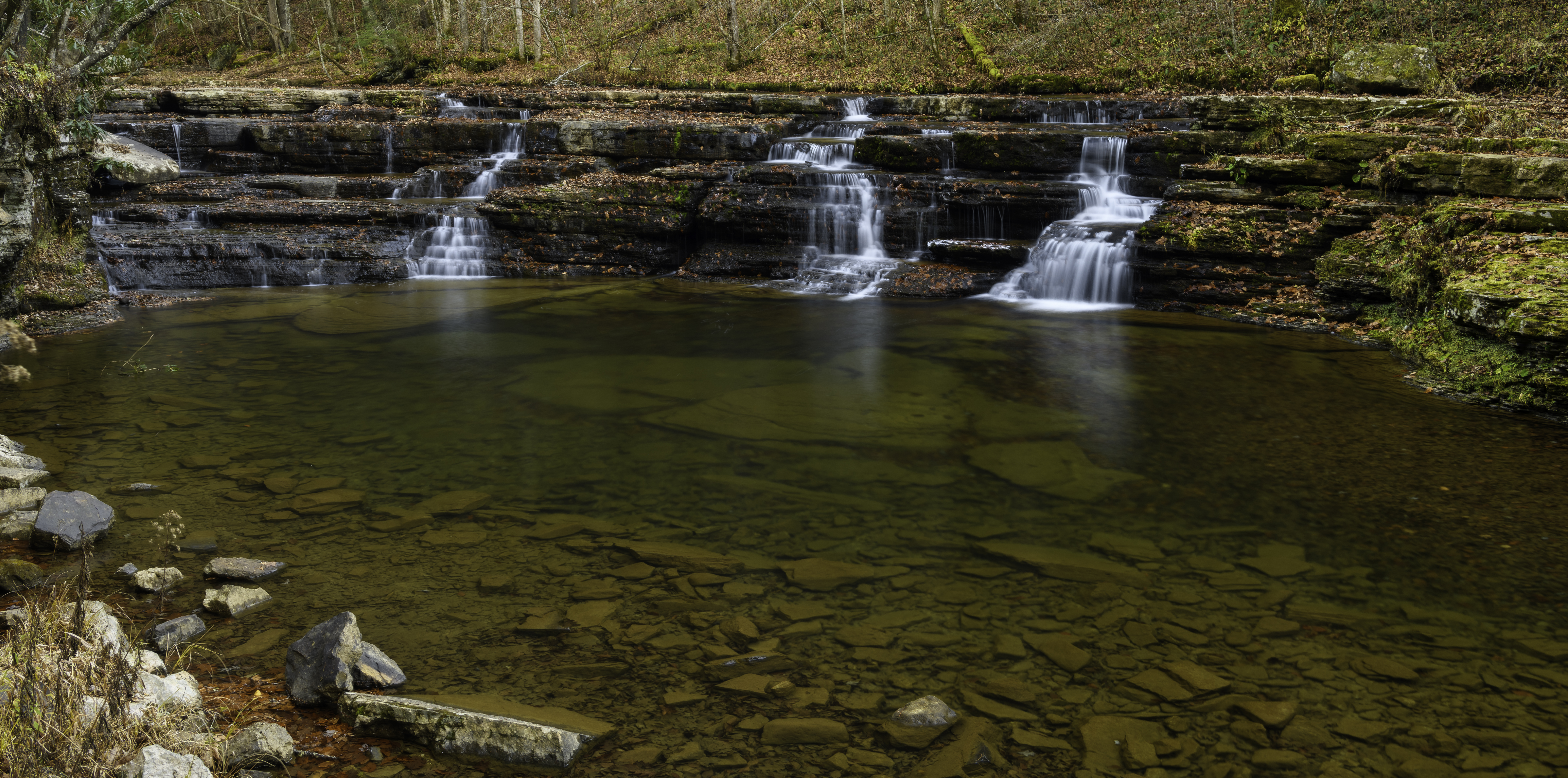 Campbell Falls, Camp Creek State Park, Mercer County, West Virginia.